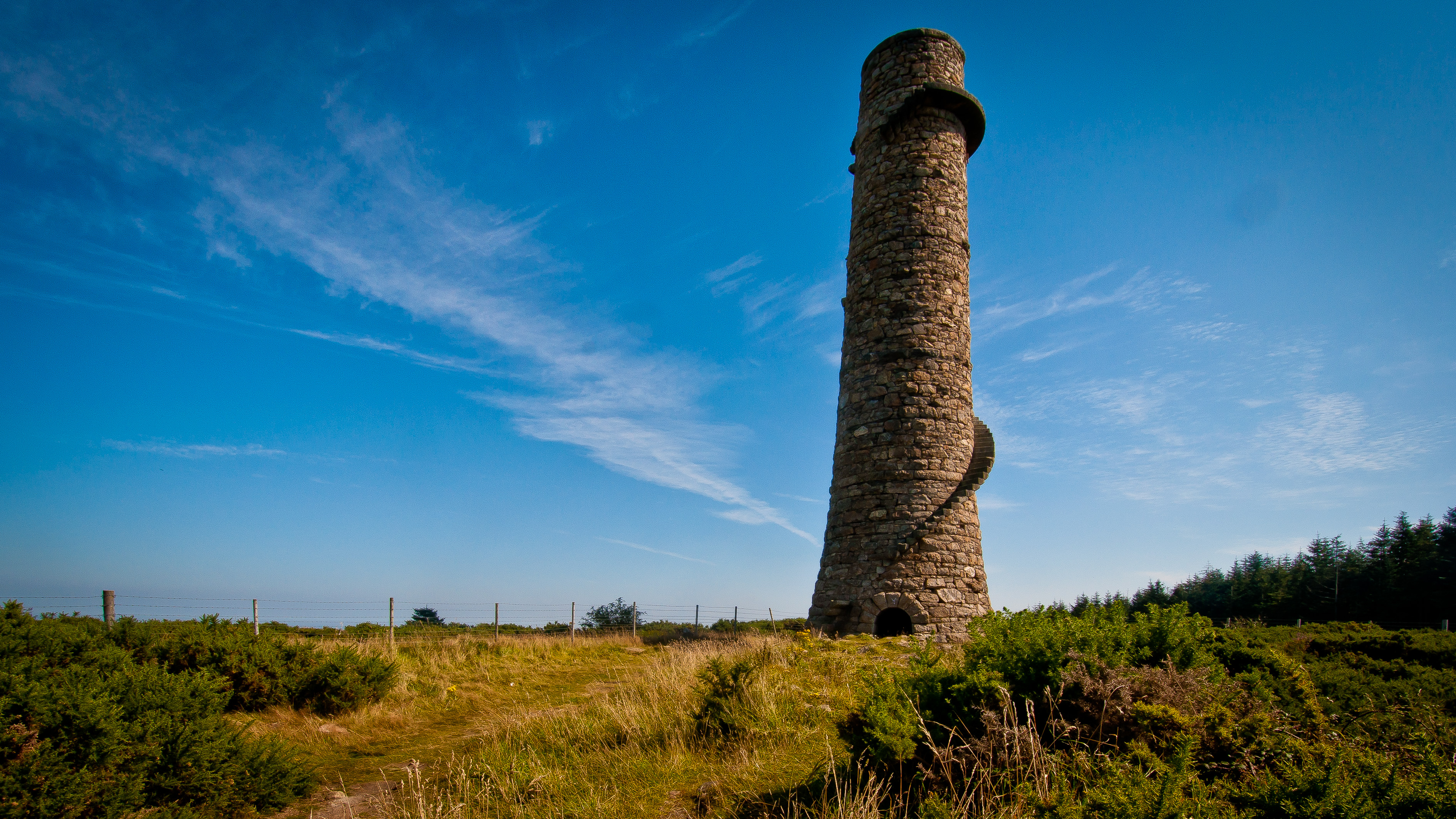 The remains of the flue chimney of the former leadworks at Ballycorus, County Dublin, Ireland